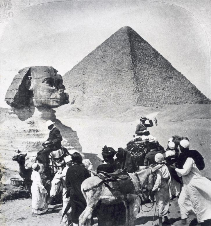 Tourists on camels near the Great Pyramid. Egypt, Gizeh,1904. Hebt u meer informatie over deze foto, laat het ons weten. Laat een reactie achter (als u ingelogd bent bij Flickr) of stuur een mailtje naar: Please help us gain more knowledge on the content of our collection by simply adding a comment with information. If you do not wish to log in, you can write an e-mail to: Meer foto’s van Spaarnestad Photo zijn te vinden op onze beeldbank